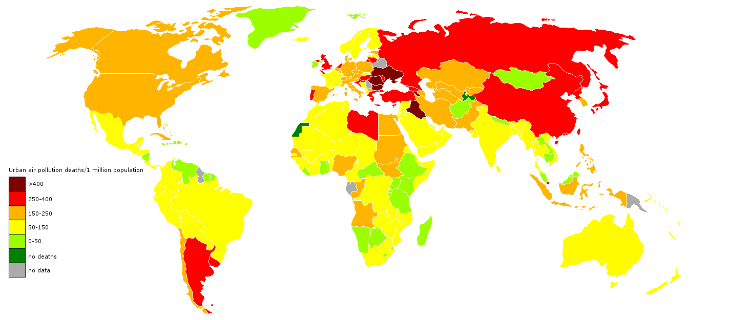 Map showing the number of deaths from air pollution per country. Map was based on a map of the WHO, and This map is accurate for 2004.It should be noted though that it differed greatly from an earlier map made under the same project ( and ). As such, questions arise regarding the accuracy even of this map. This, especially since this old and even the current map also differ greatly from the ESA map at and the map at